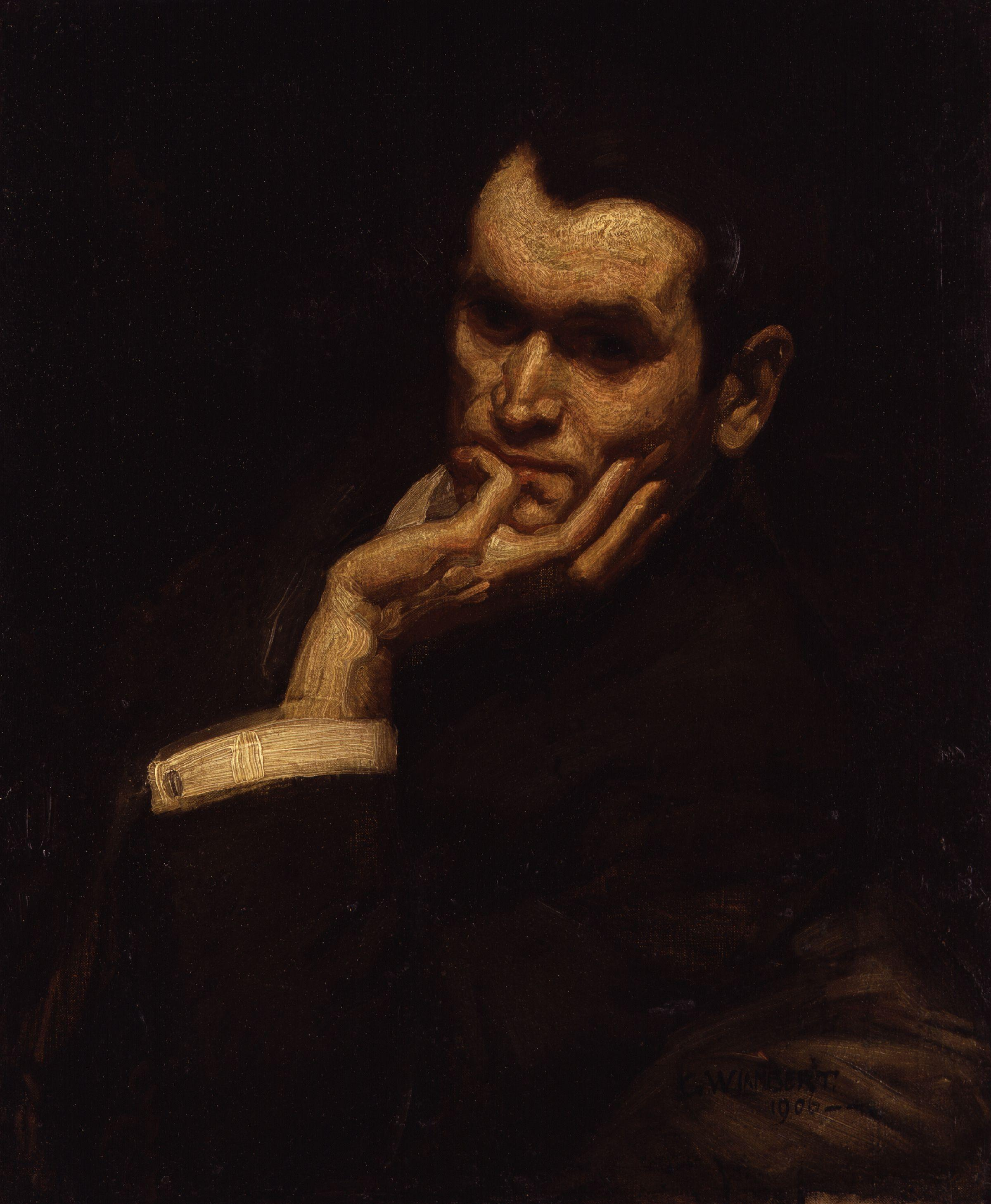 Francis Derwent Wood, by George Washington Lambert (died 1930). All images in this batch have been confirmed as author died before 1939 according to the official death date listed by the NPG.